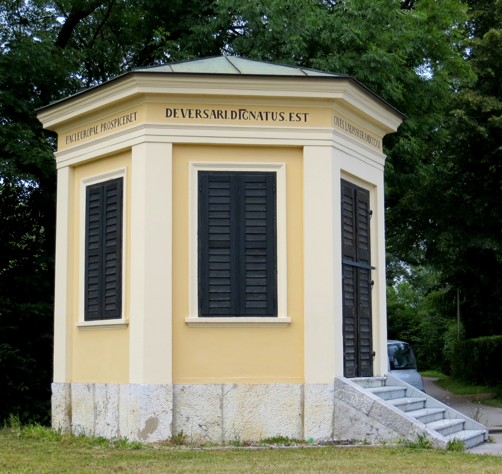 Two Emperors Street Pavilion (Slovene: Paviljon na Cesti dveh cesarjev) in Vič, Ljubljana, Slovenia